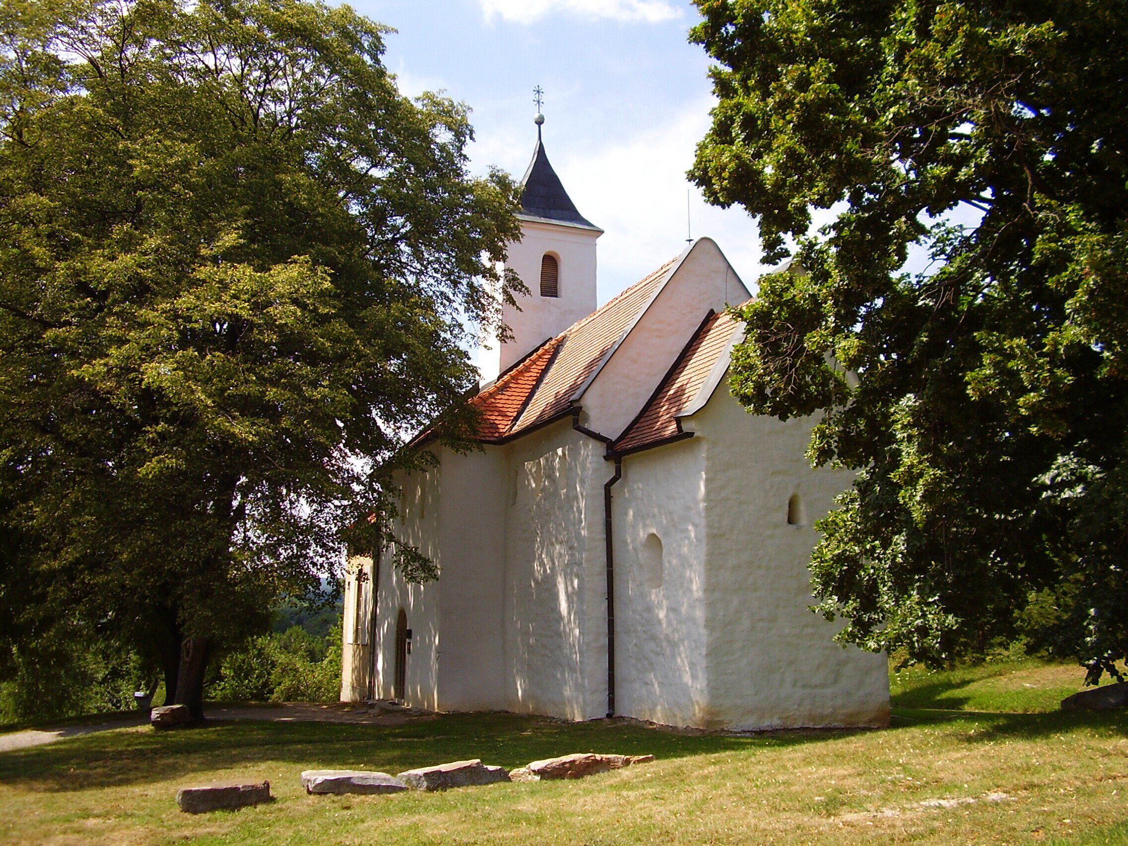 Kostolik sv. Juraja